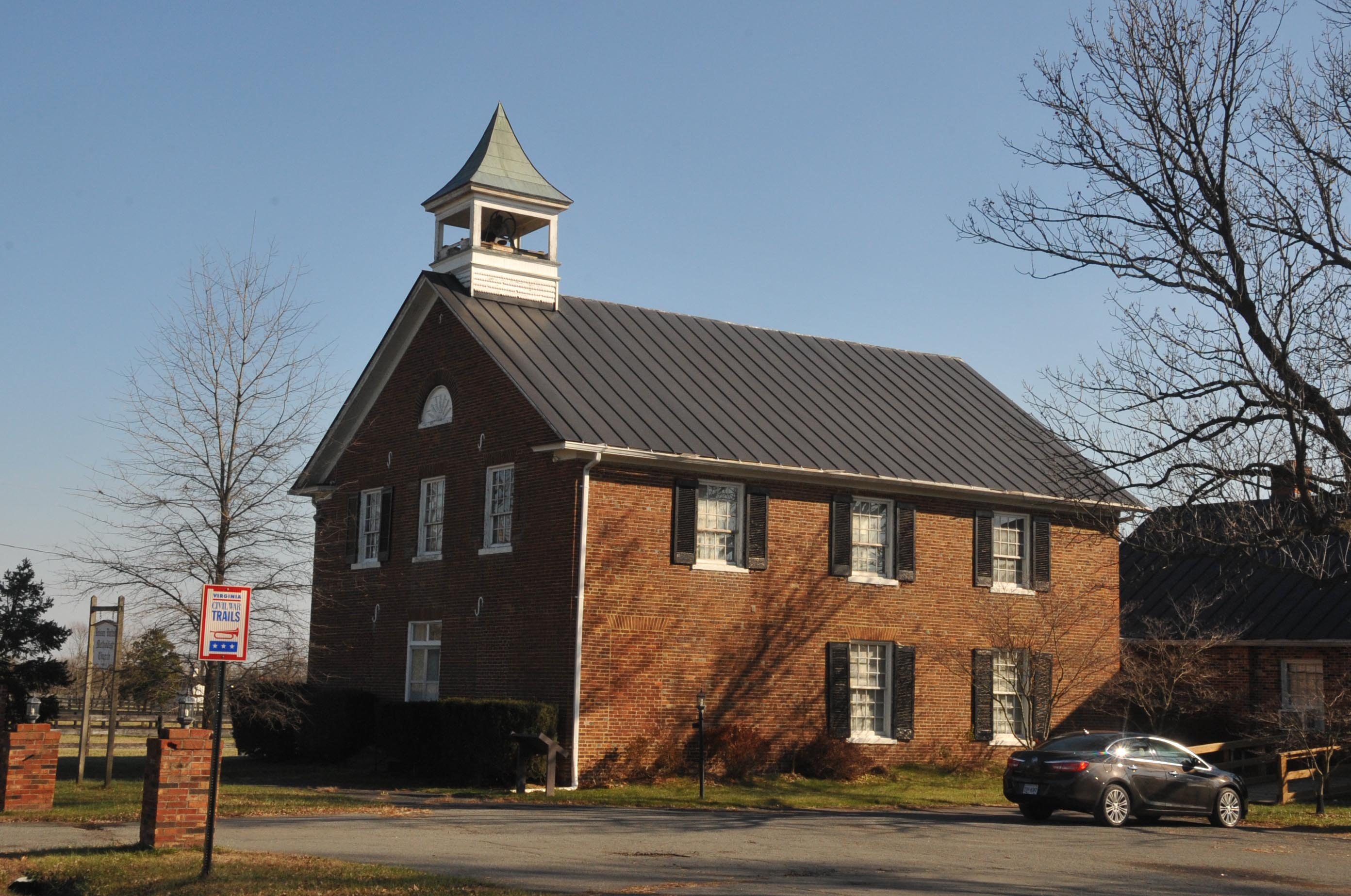 FOUNDED IN 1832; VERNACULAR GREEK REVIVAL